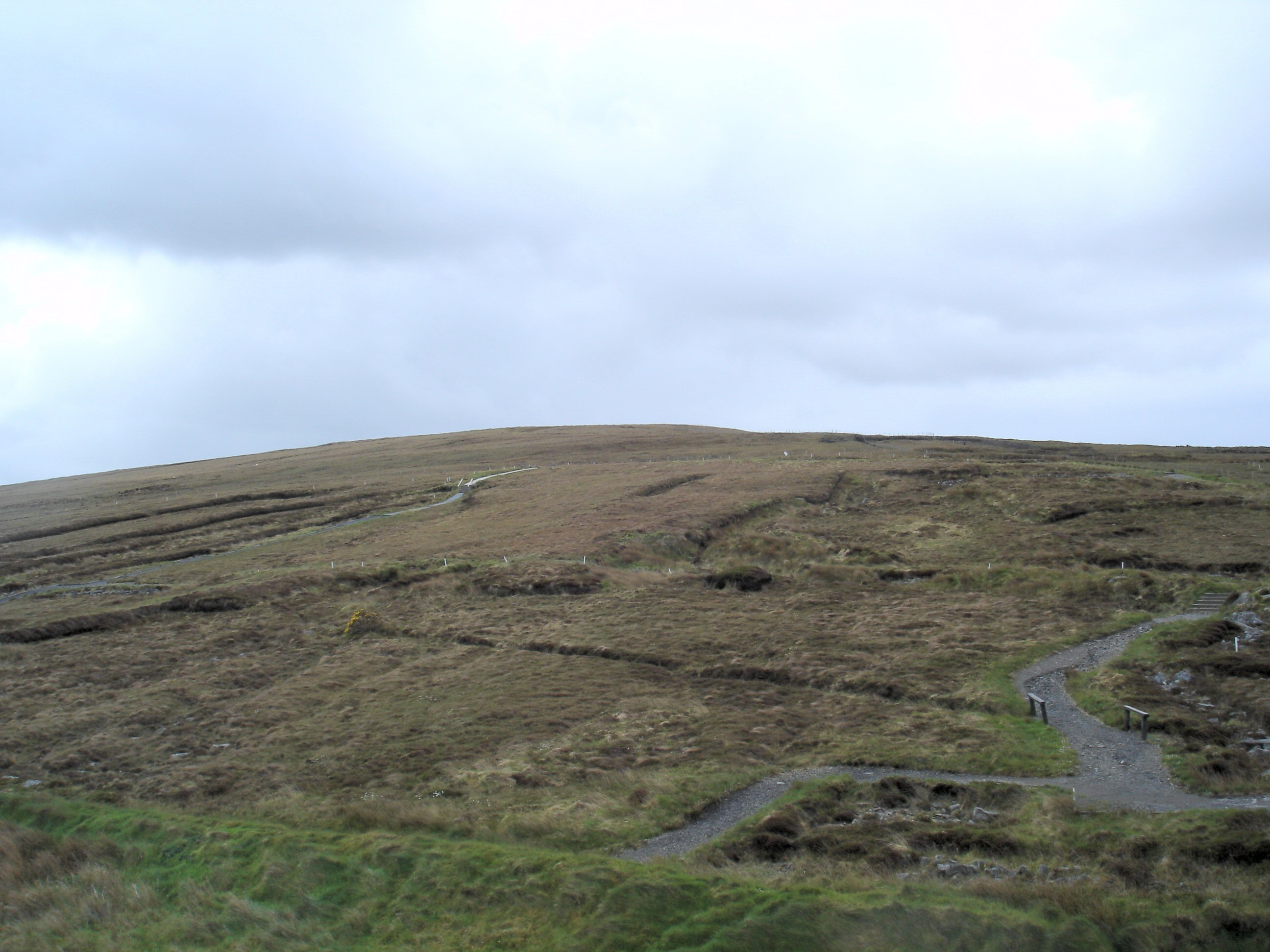 Ceide Fields Neolithic site